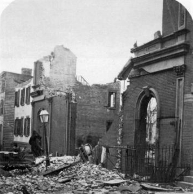 Brooklyn Theatre looking east down Johnson Street toward Adams Street, shortly after the December 05 1876 fire.